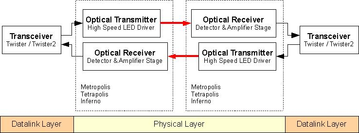 Block diagram of the RONJA system for one full duplex connection. It also shows the OSI layer for the components.